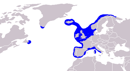 Distribution map for Ling (Molva molva) created by me with The Gimp, based on Image:BlankMap-World.png